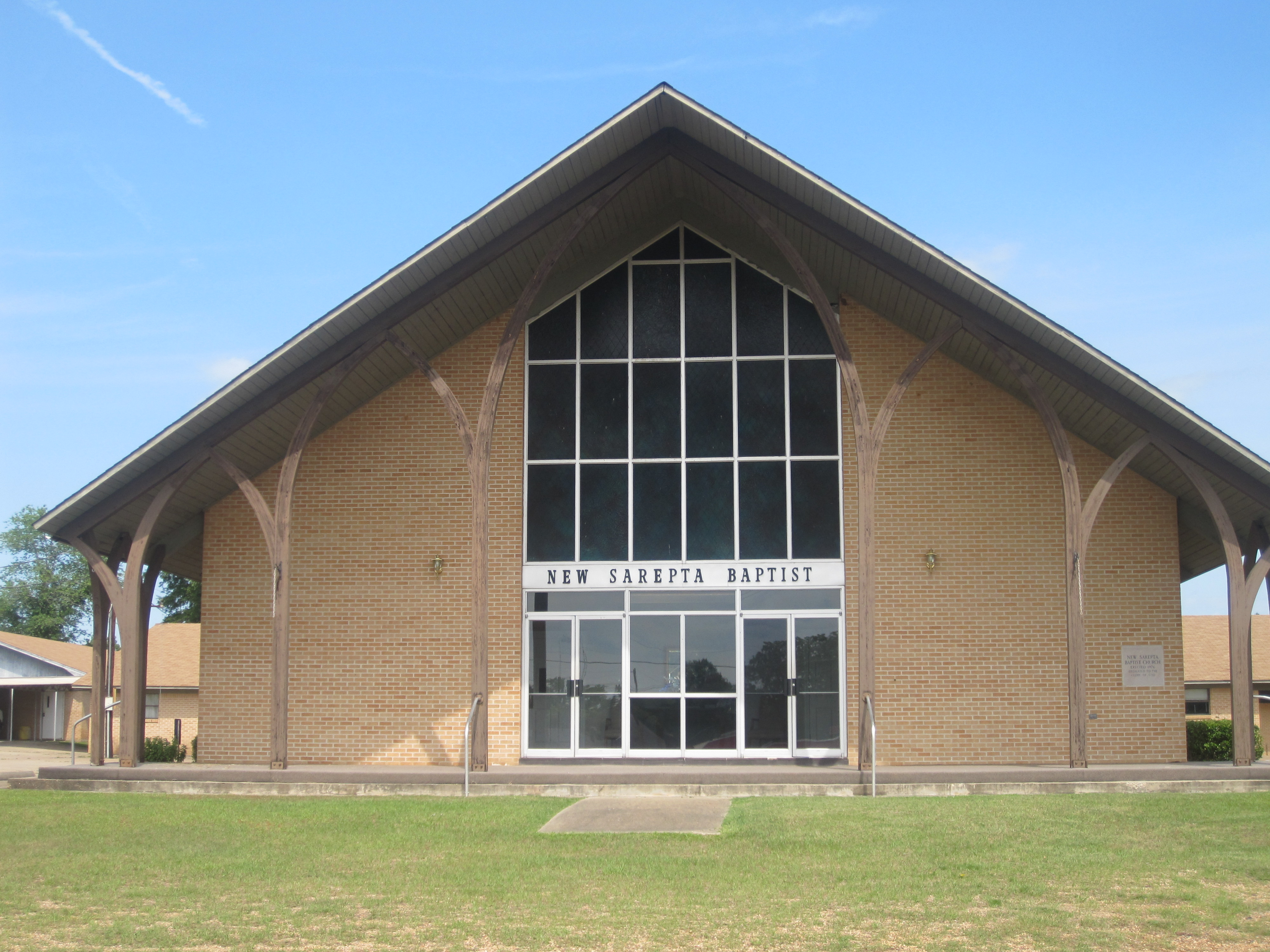 I took picture with Canon camera.